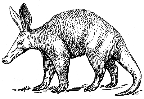 Illustration of an aardvark. Cleanup and PNG conversion of Image:Aardvark2 (PSF).jpg 2007-08-16